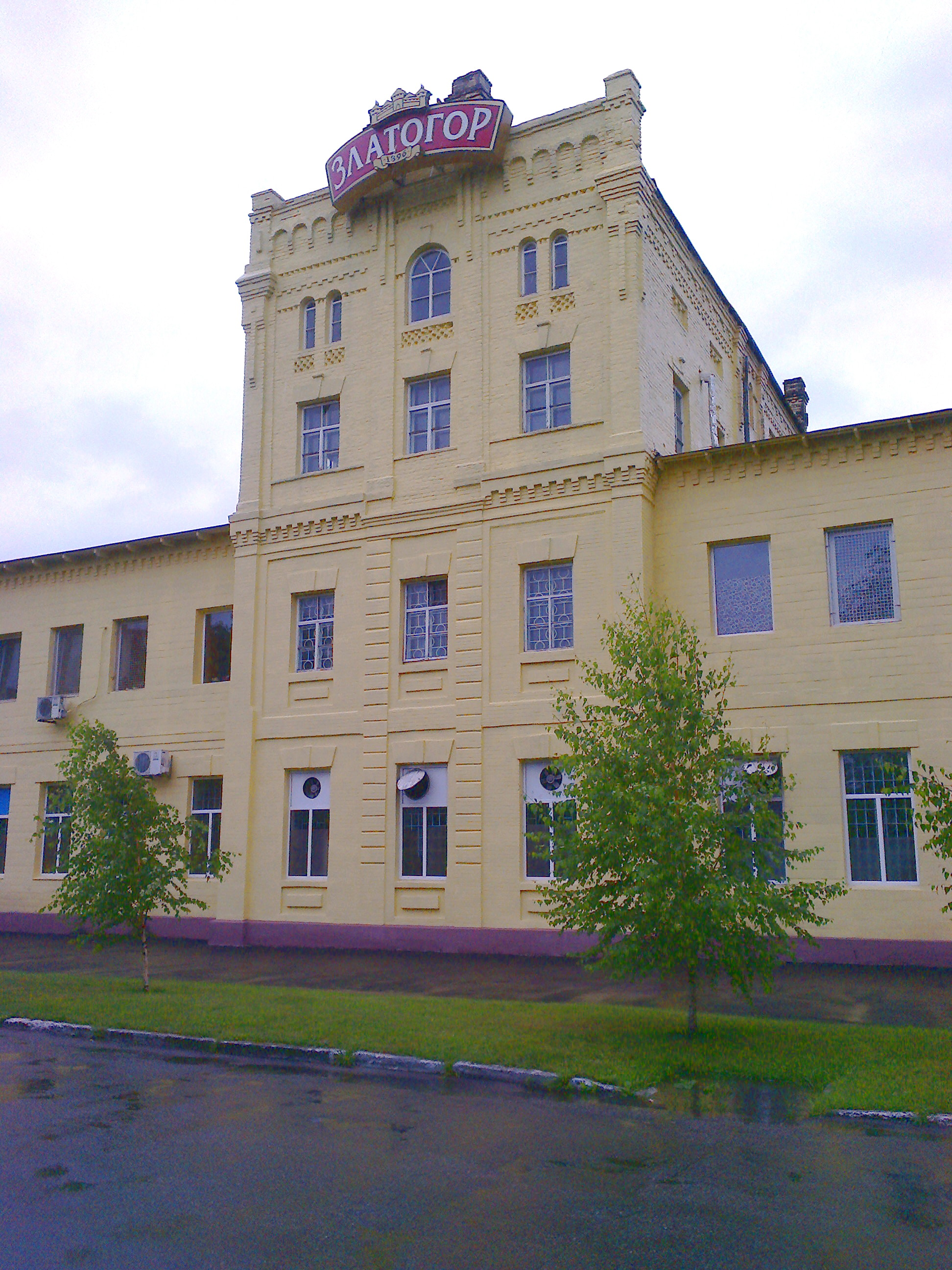 Old building of the distillery "Zlatogor" in Zolotonosha, Ukraine. 1896, art Nouveau.